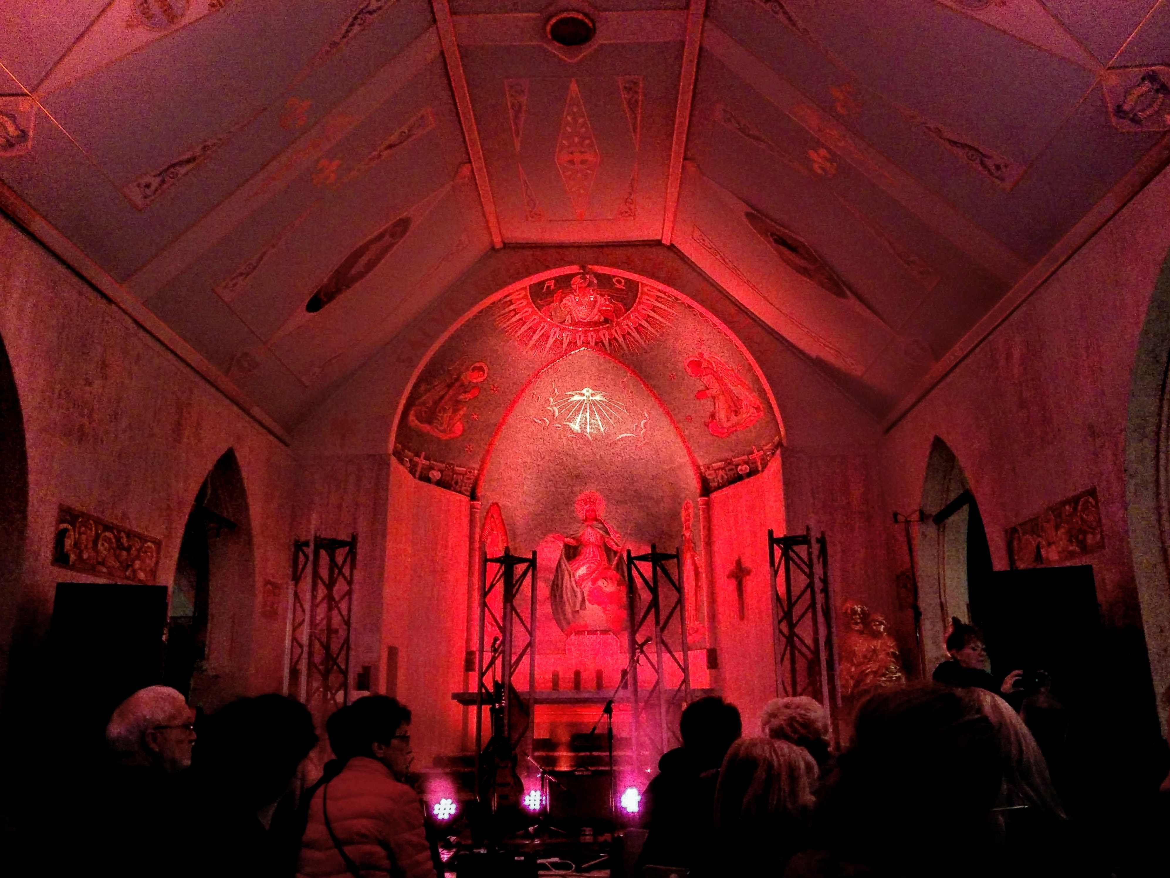 The chapel of the Oratory of Mont-Saint-Joseph under a stage lighting during the performance of Michel Rivard and Lou-Adriane Cassidy as part of the Bleu bleu Festival